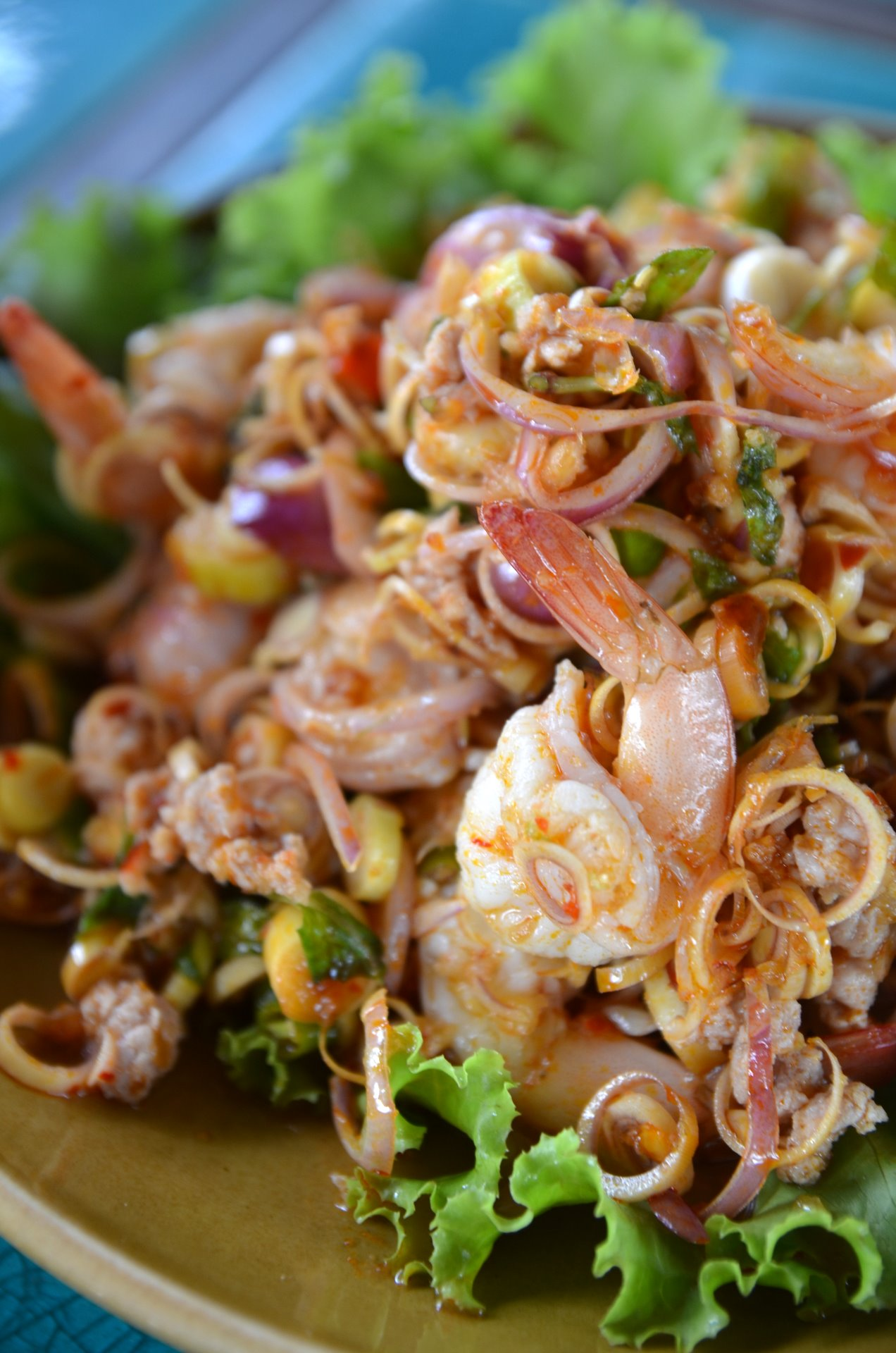 Phla kung (Thai script: พล่ากุ้ง) is a spicy Thai salad made with prawns, minced pork, onion, thinly sliced lemongrass and herbs. The dressing is made with a sweet chilli paste (nam phrik phao), lime juice and fish sauce.